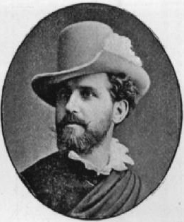 French opera singer Jacques Bouhy (1848-1929)